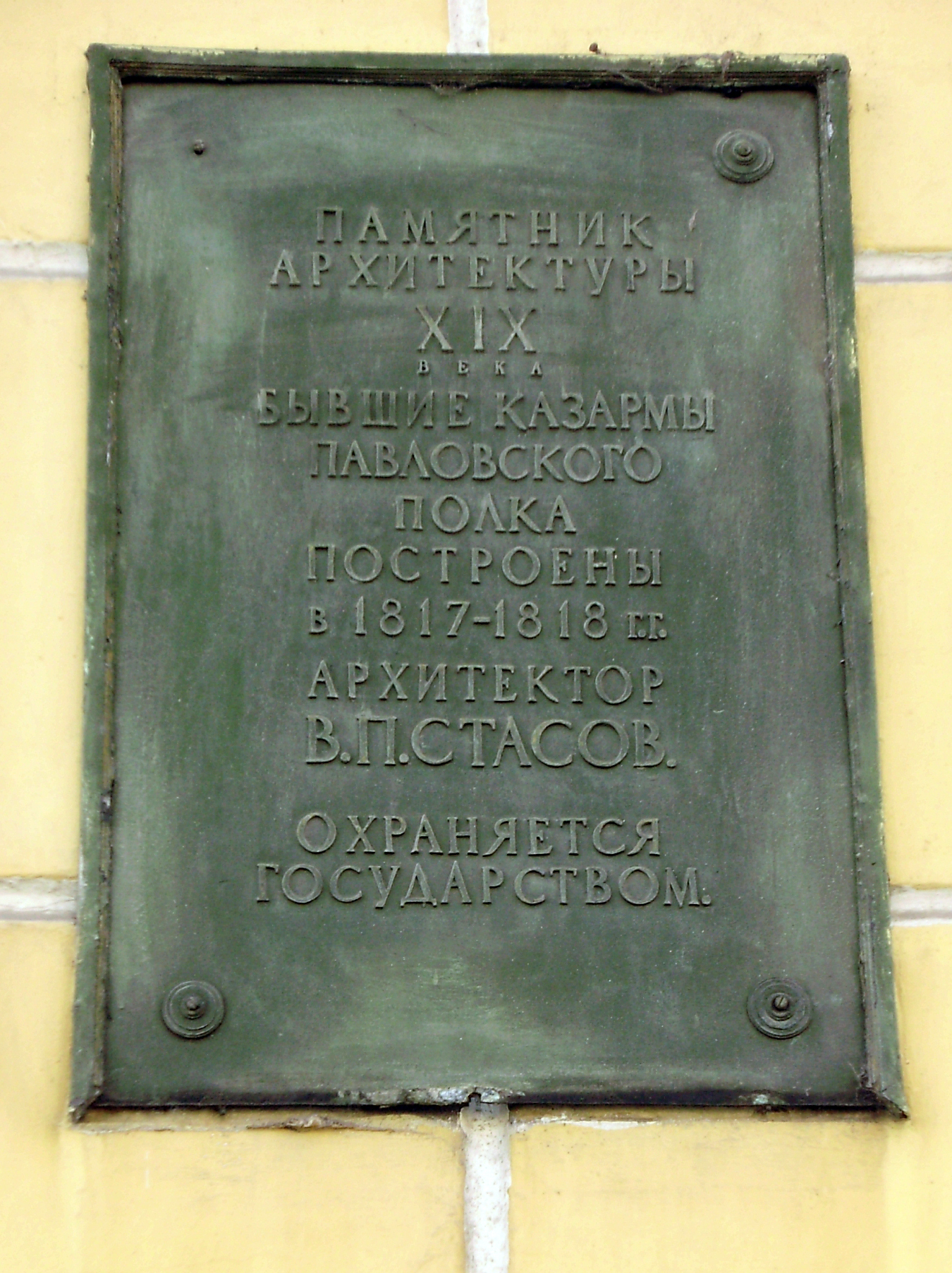 Memorial plate on the building of the former quarters of the Pavlovsky Lifeguards Regiment